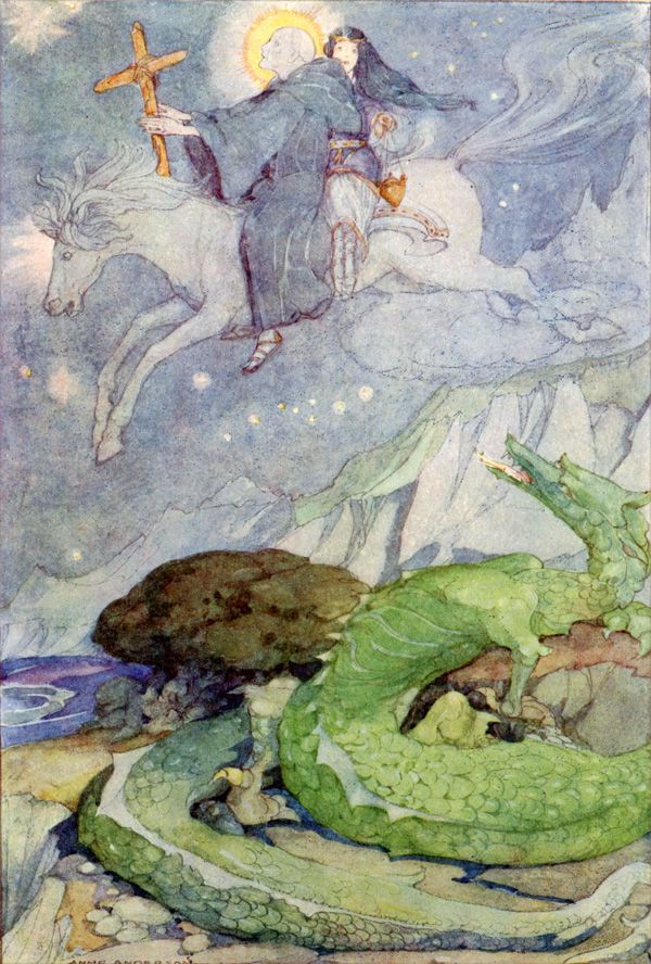 "The Marsh King's Daughter". The Marsh King's Daughter and the Dragon